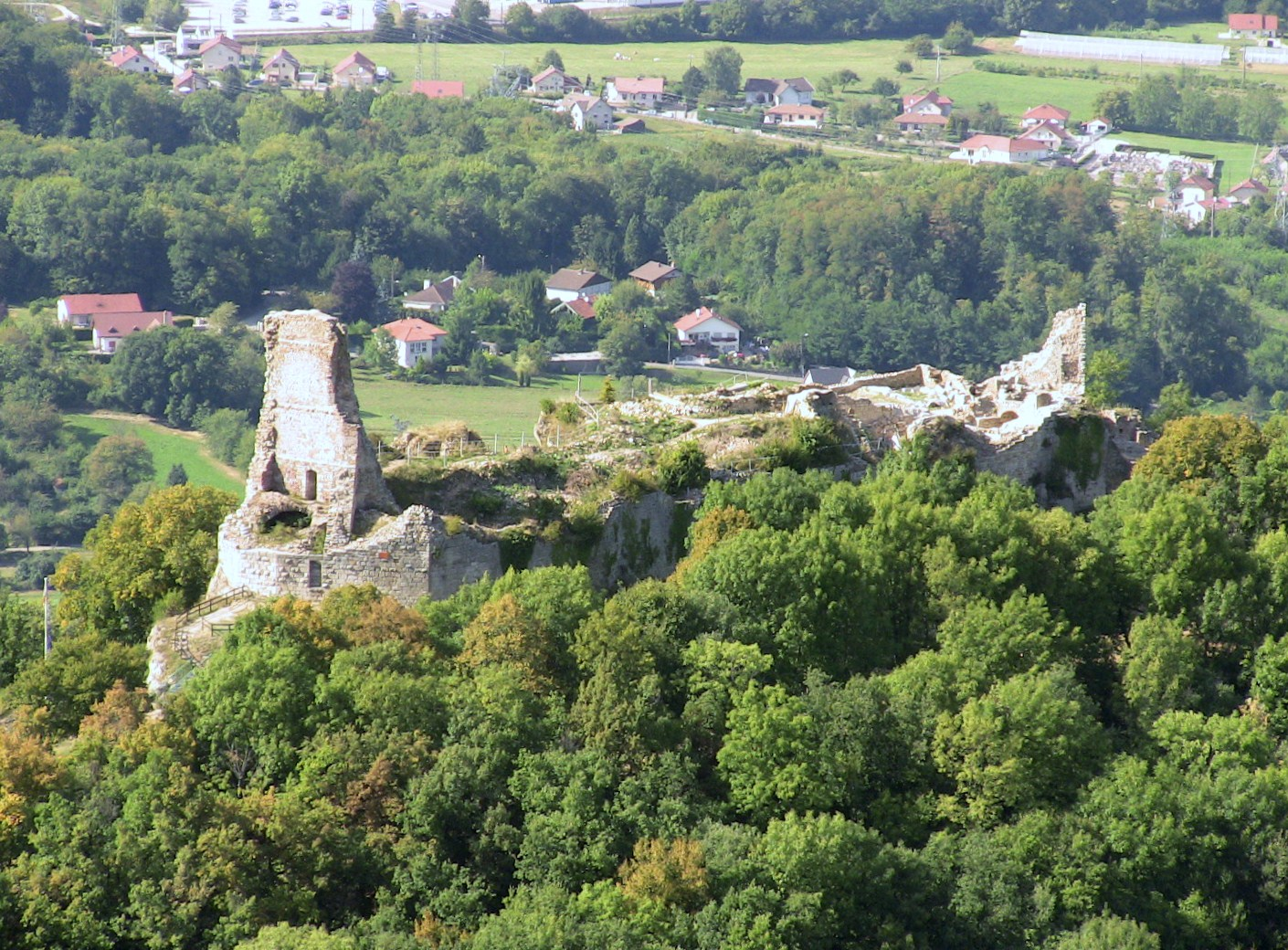 Castel of Montfaucon, located near Besançon (Doubs, France)